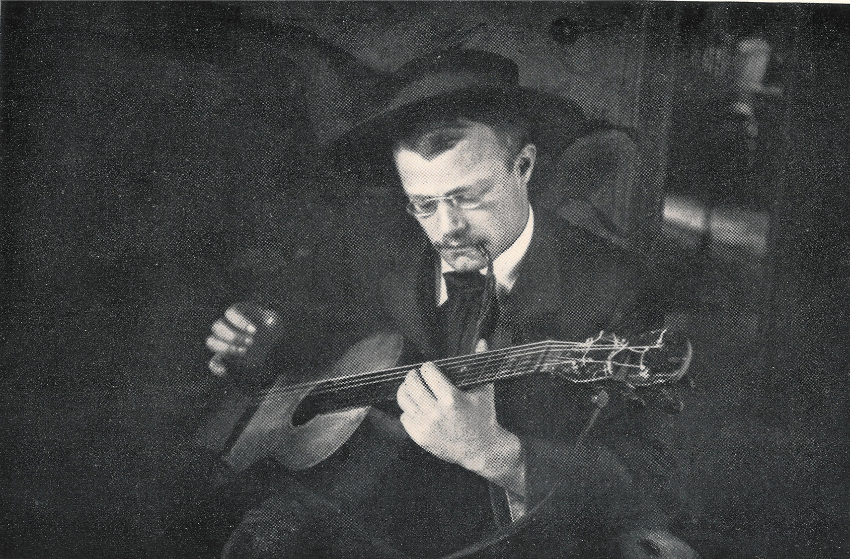 Hans Breuer, before 1918